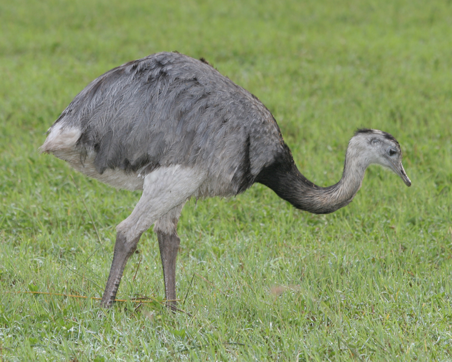 Greater Rhea Rhea americana roaming the fields of Entre Rio, Argentina on 8 April 2006.